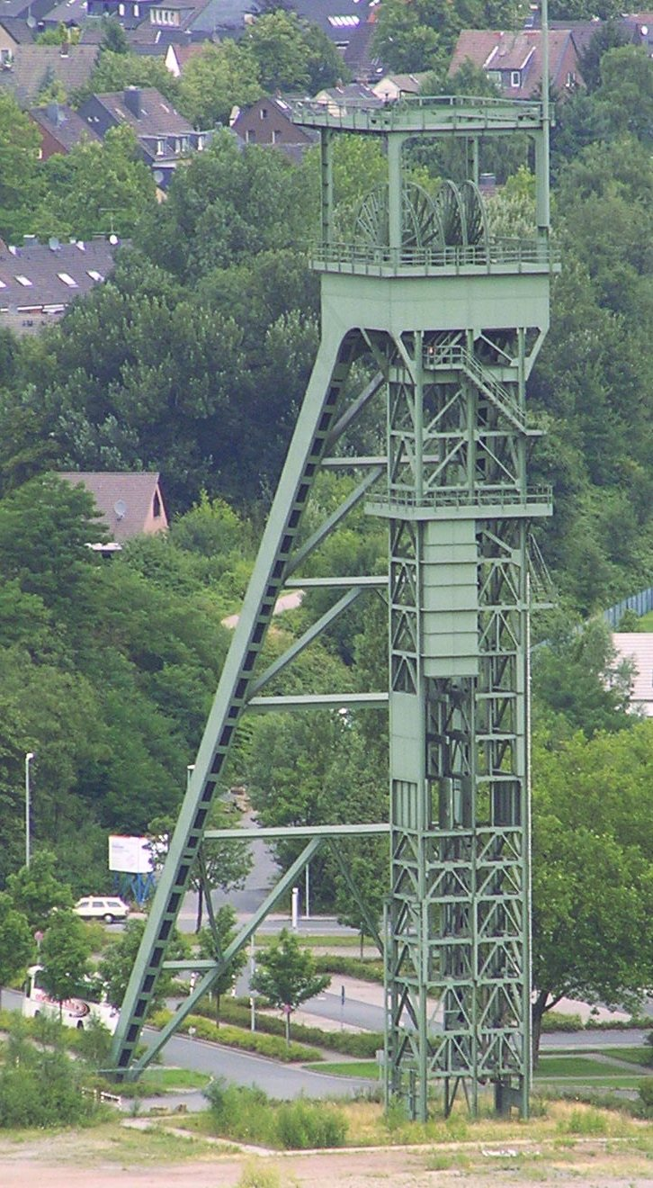 pit "Paul-Reusch-Schacht" of the closed coal mine "Osterfeld", Oberhausen